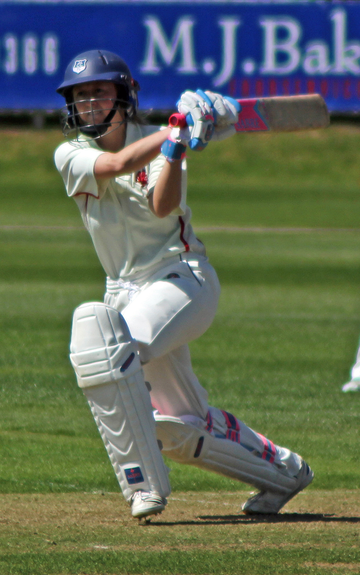 Fran Wilson batting for Somerset women against Durham in the women's County Championship at the County Ground, Taunton in 2013.